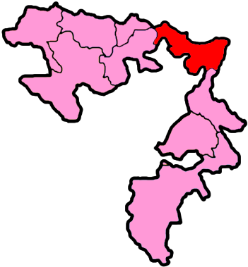 The sixth electoral unit of Republika Srpska (NSRS) shown within Bosnia and Herzegovina.